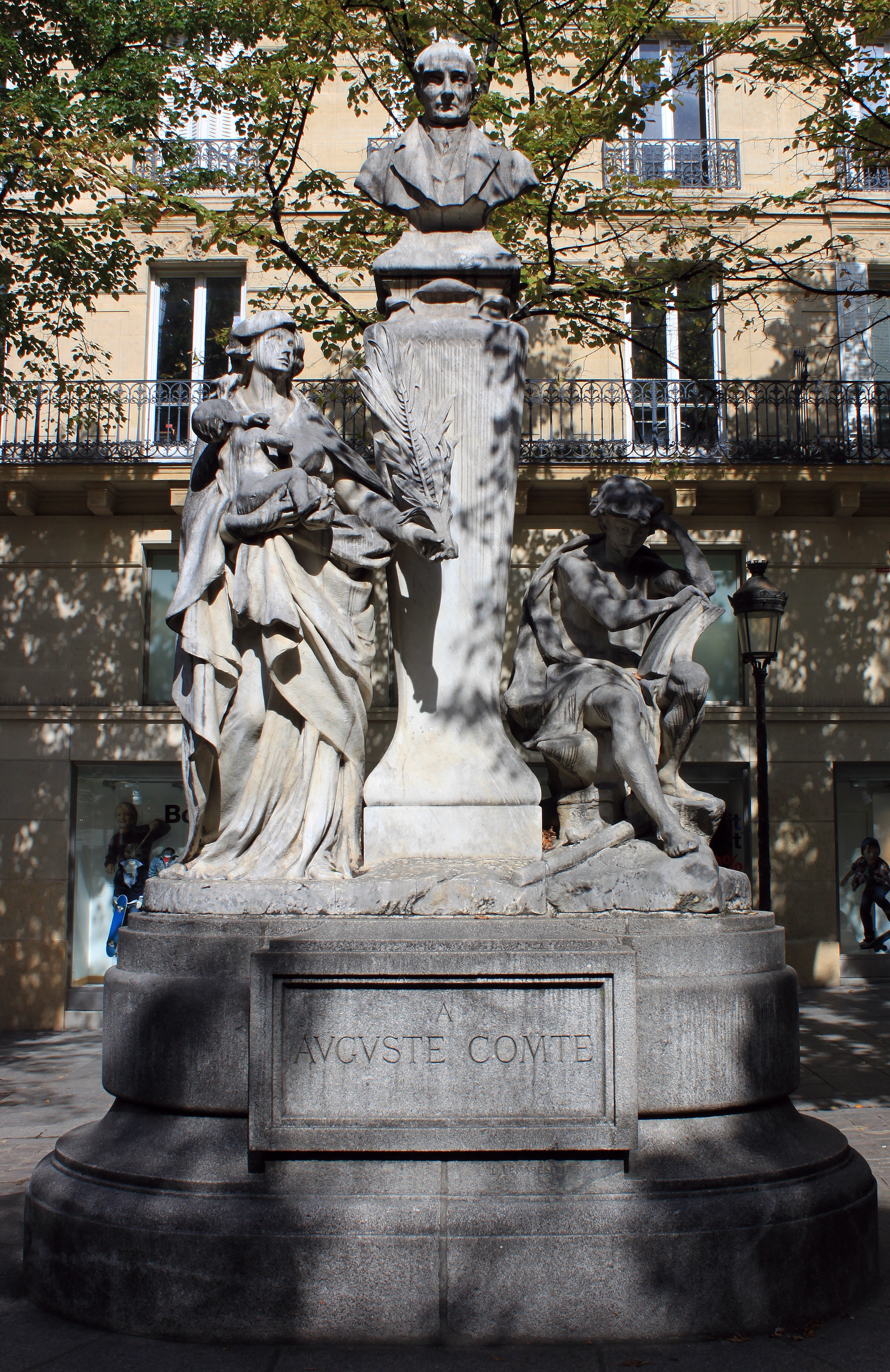 Monument to Auguste Comte, by Jean-Antoine Injalbert, Place de la Sorbonne, Paris.